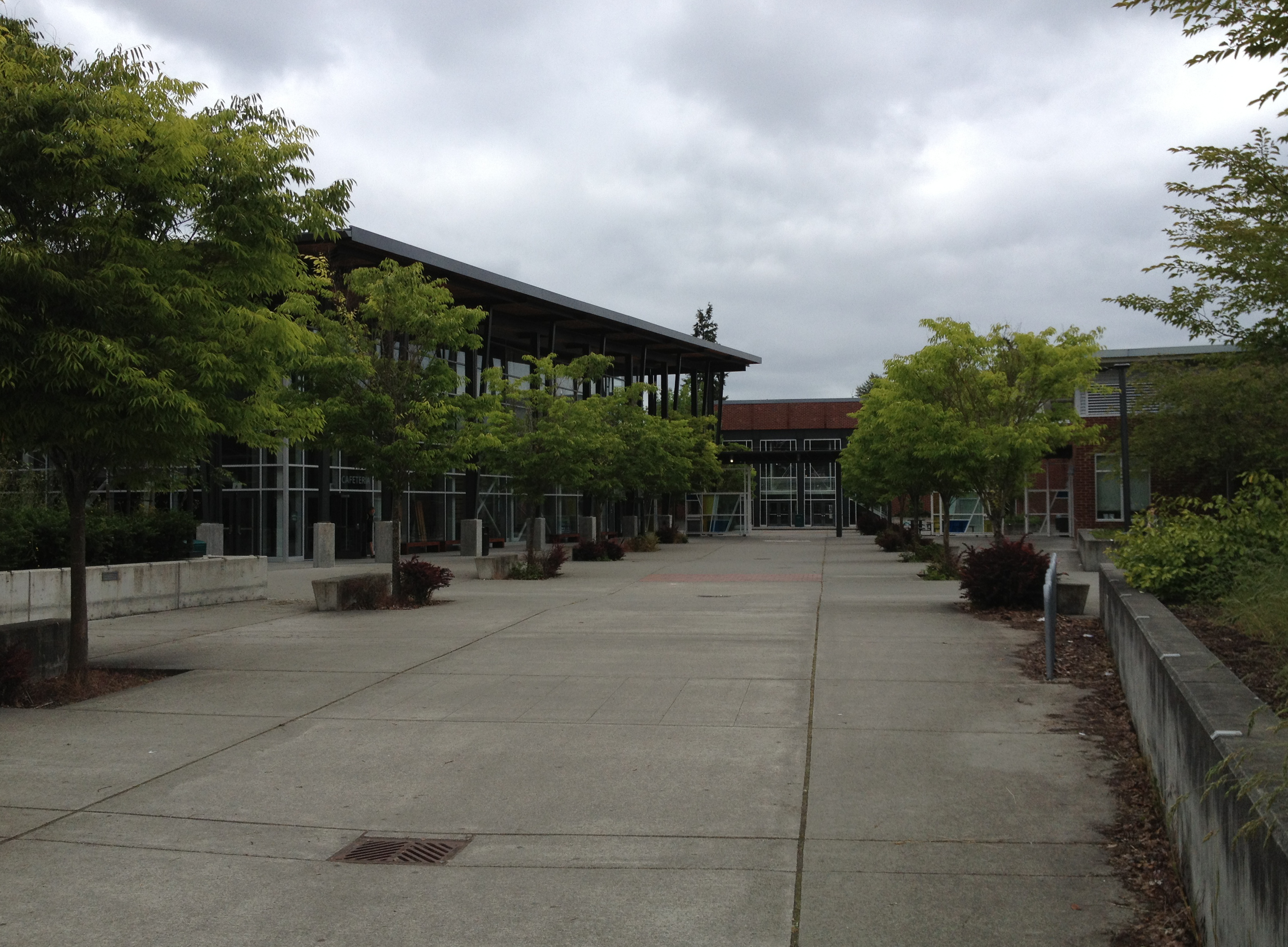 Main walk leading up to RHS